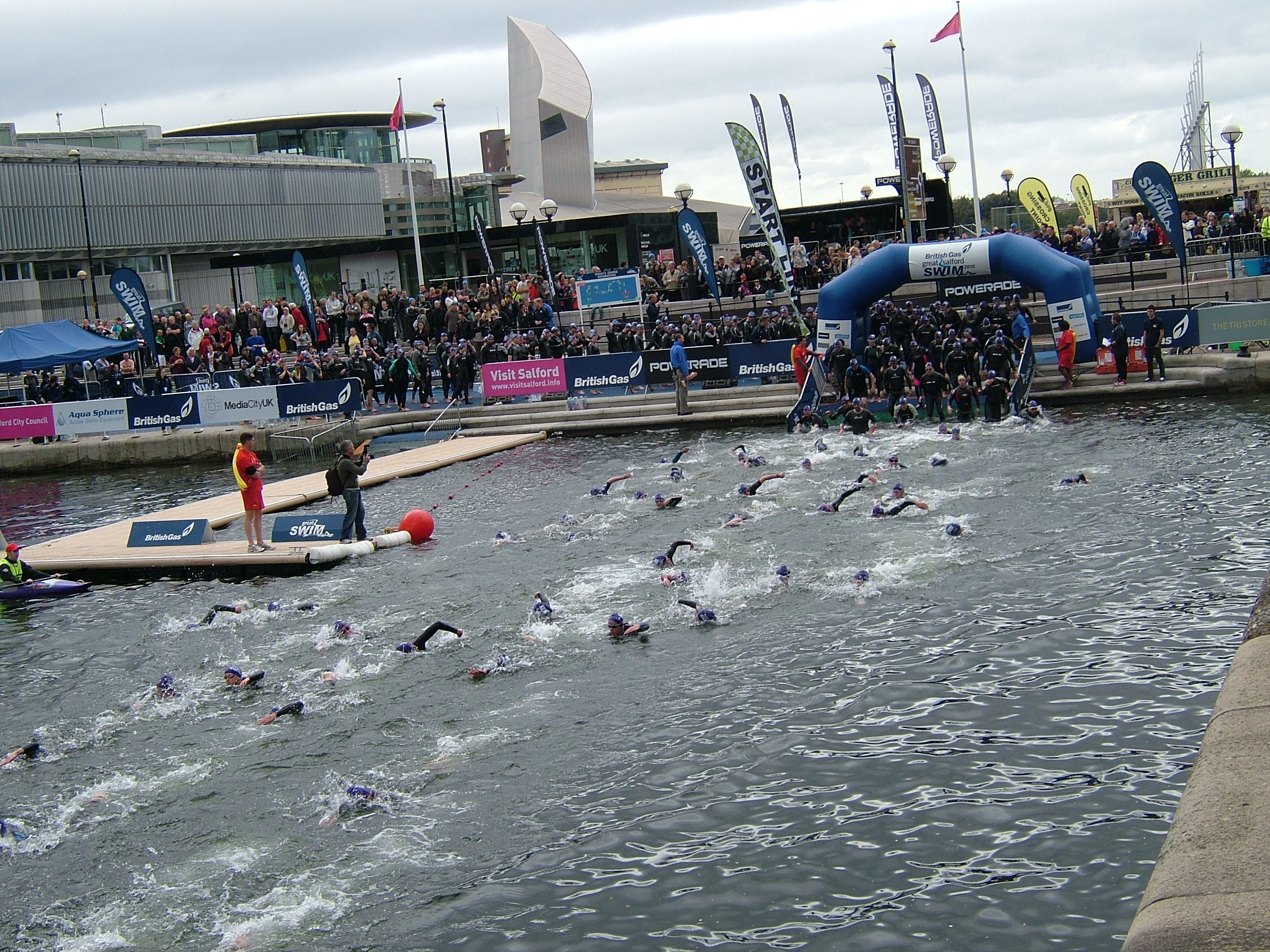 The Salford Quays, the former Manchester Docks on the Manchester Ship Canal have been redeveloped. They played host in 2010, to a one Open water swimming event,the British Gas Great Swim, from No 9 Basin, through the Mariners Canal to the Salford Watersports Centre in Basin 8. Water temperature 14.5C. Above 3000 participants. Puple wave starts.